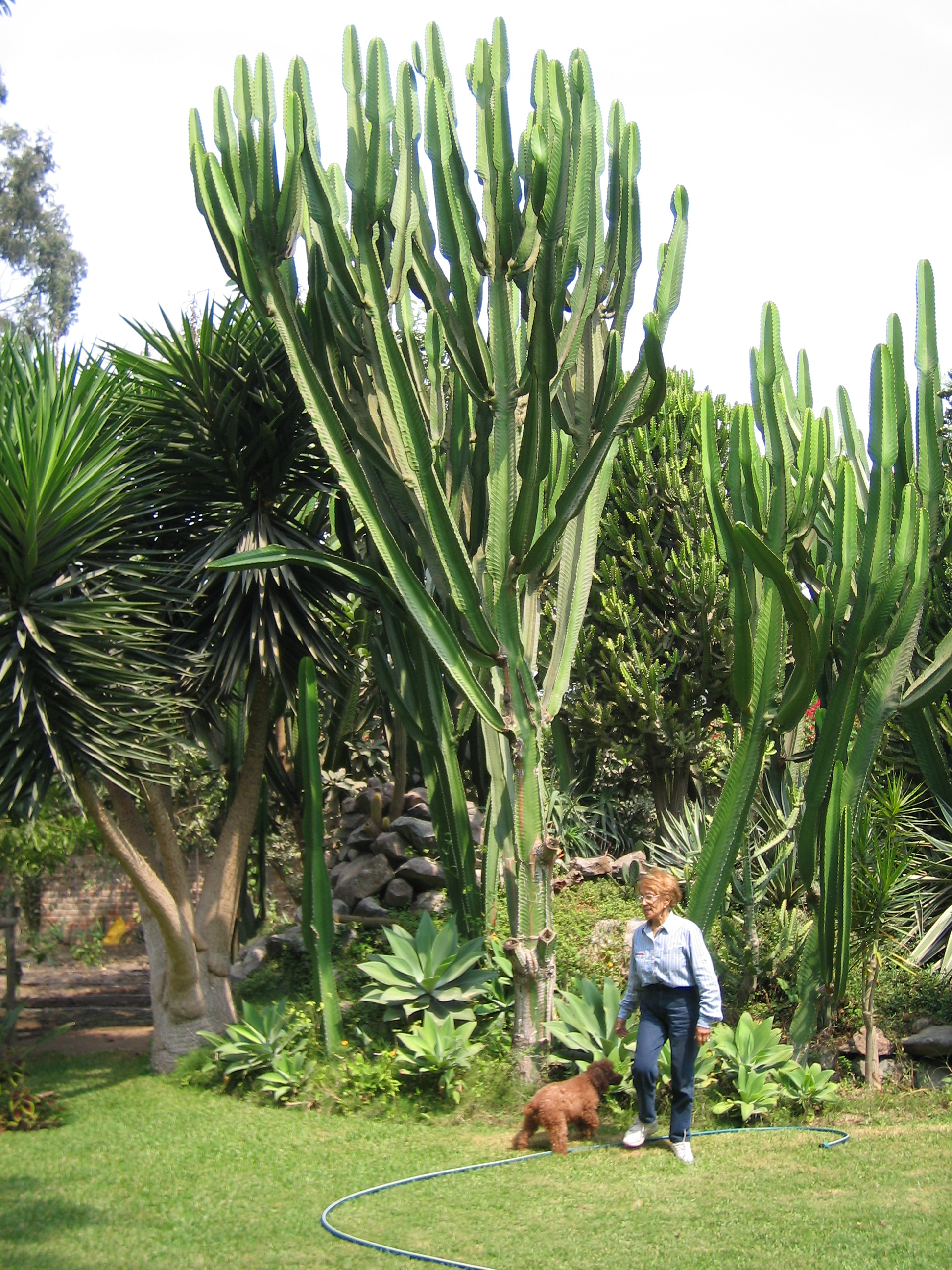 Euphorbia candelabrum. Tatita in har Cieneguilla garden - that euphorbia was quite short when it was planted! See where this picture was taken. [?]